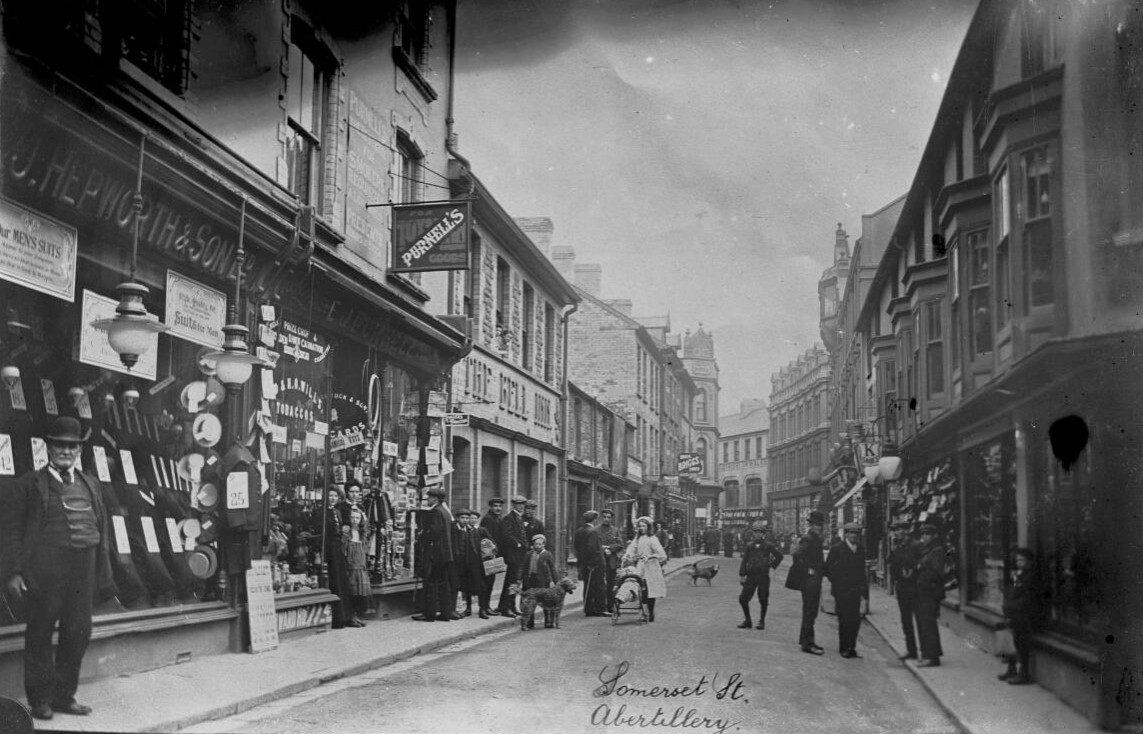 Photograph from the Martin Ridley Collection, which documents the towns and villages of South Wales c.1900-1910